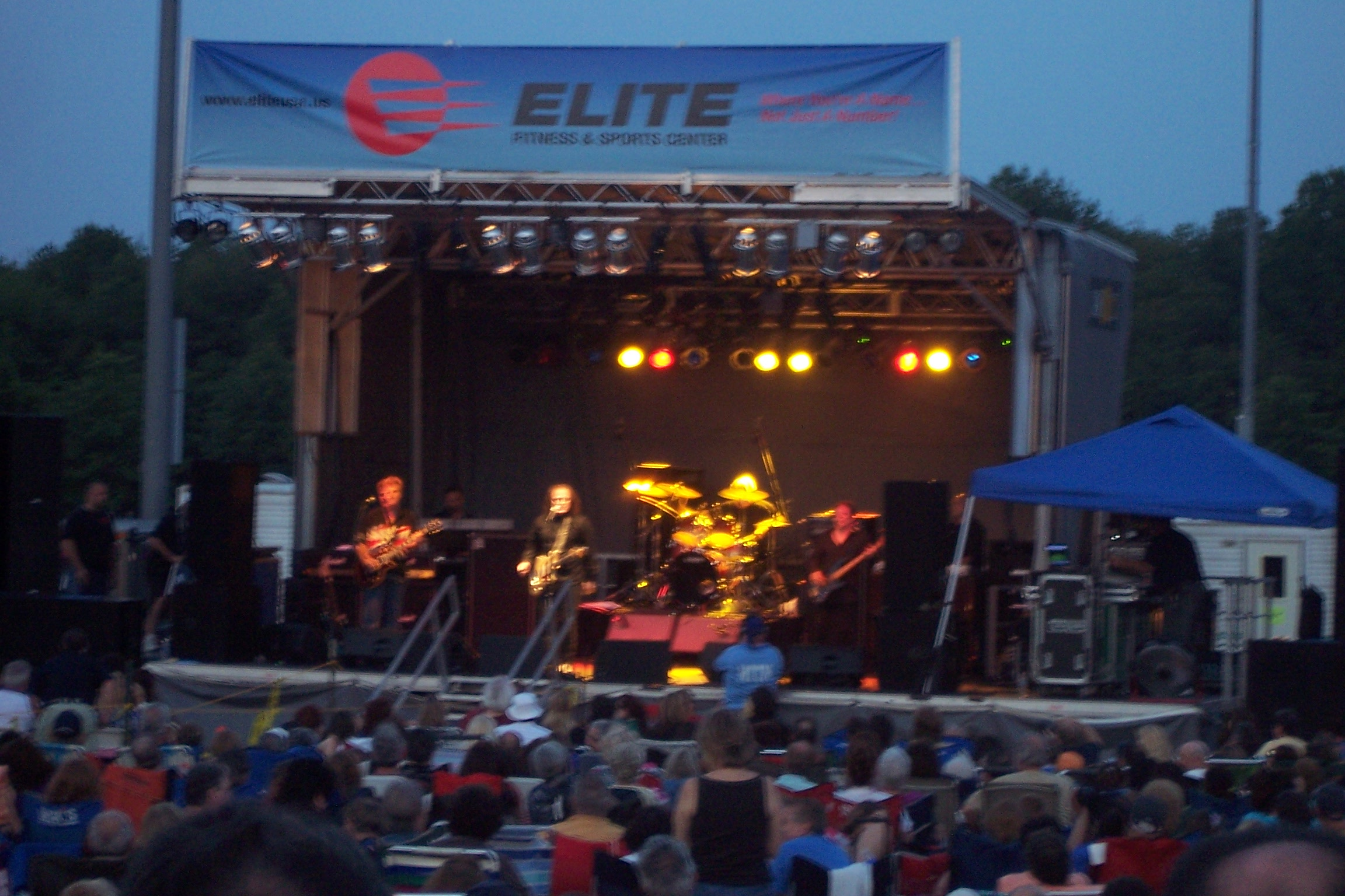 Tommy James and the Shondells playing a free outdoor concert as part of the Manalapan Under the Stars event at the Manalapan Recreation Center in Manalapan, New Jersey.